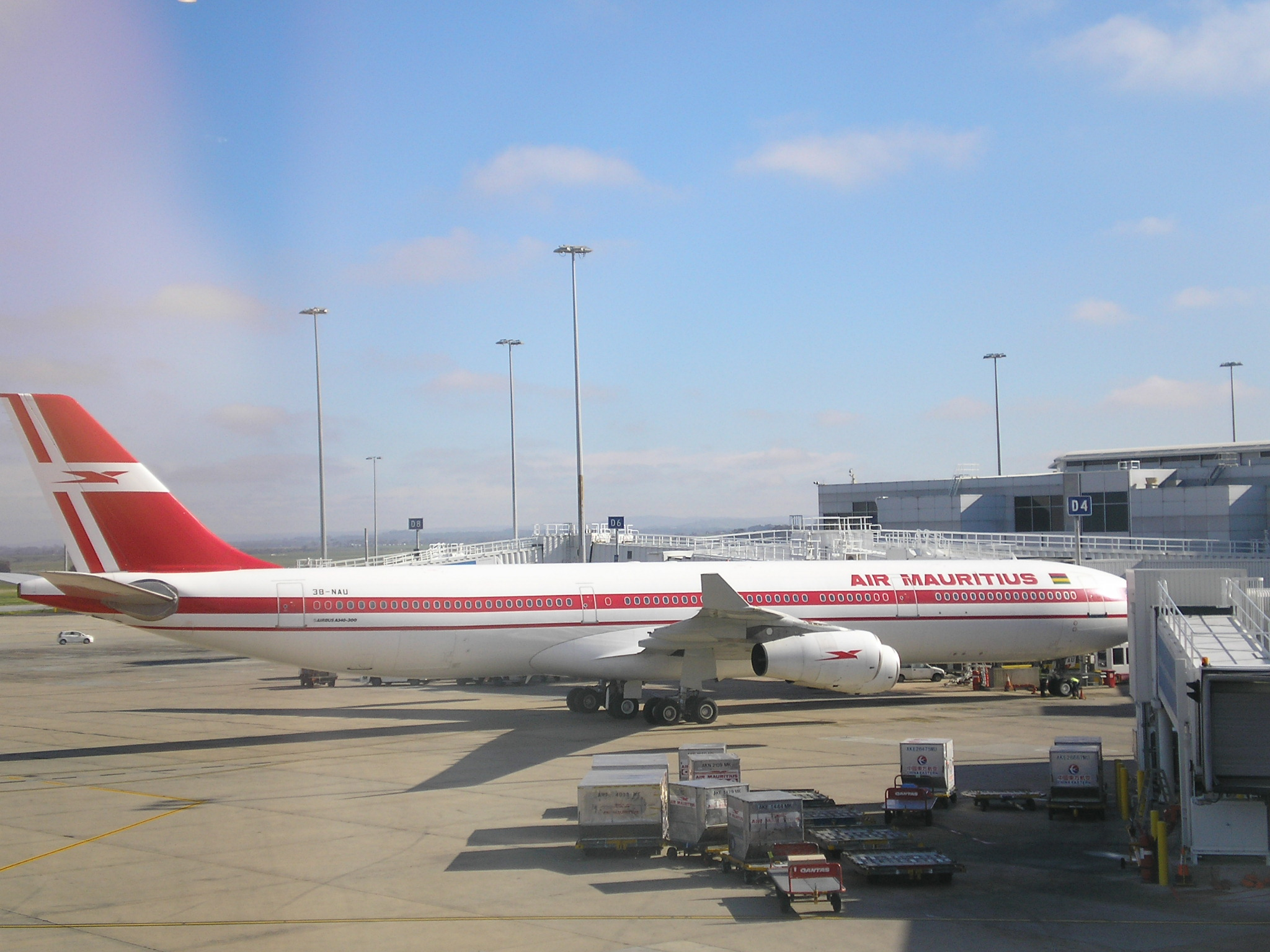 Air Mauritius Airbus A343-300 (3B-NAU) just docked into Melbourne Airport Terminal 2 Gate 4 after landing from Mauritius via Sydney. Picture taken by me, JU580 on 10 July 2007 after it had a delayed landing due to heavy fog.